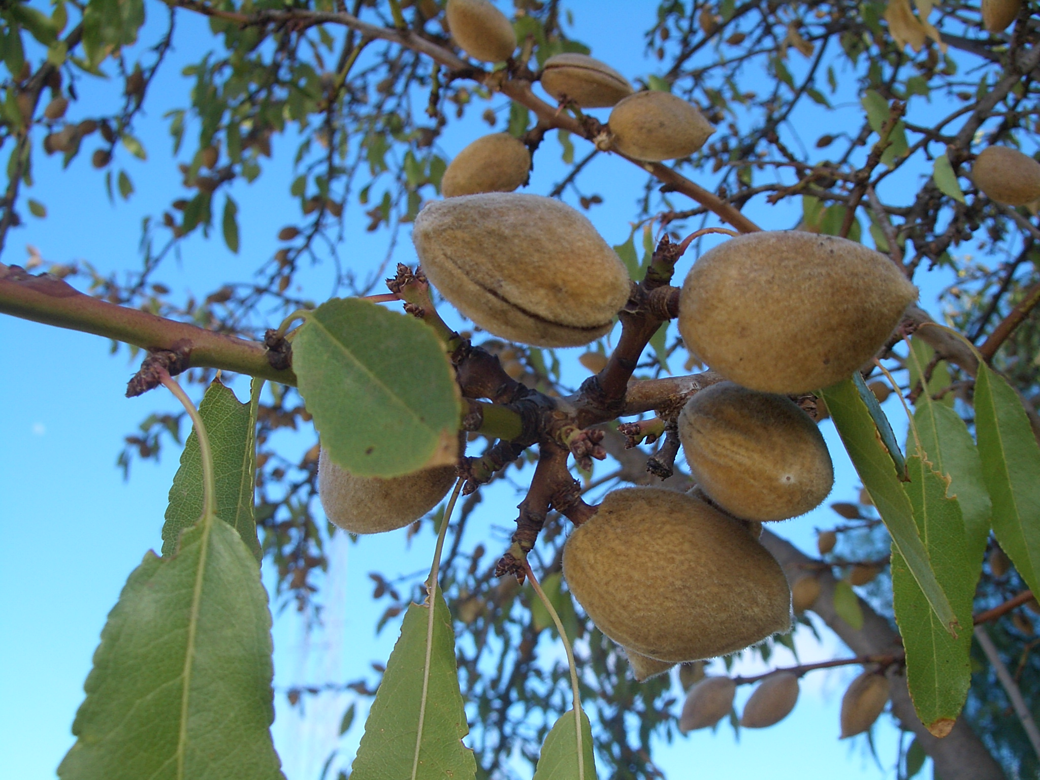 Ripe almonds on the branch in a Kadina garden